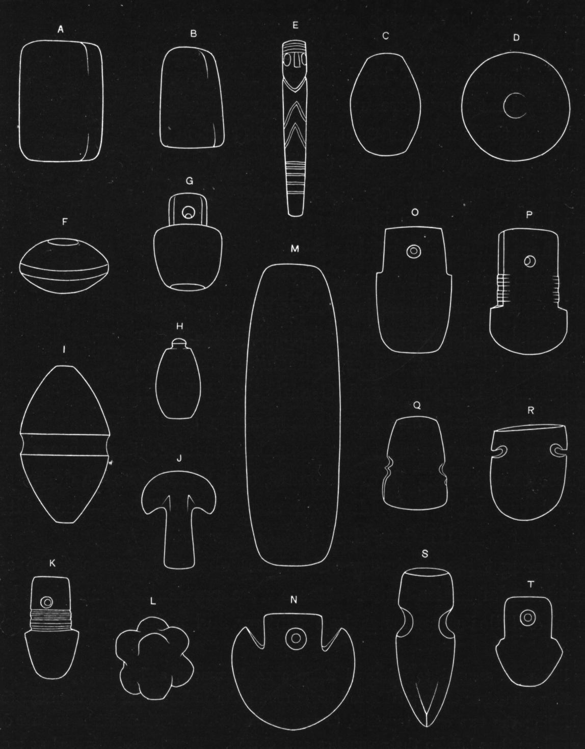 Various stone tools found in Equador